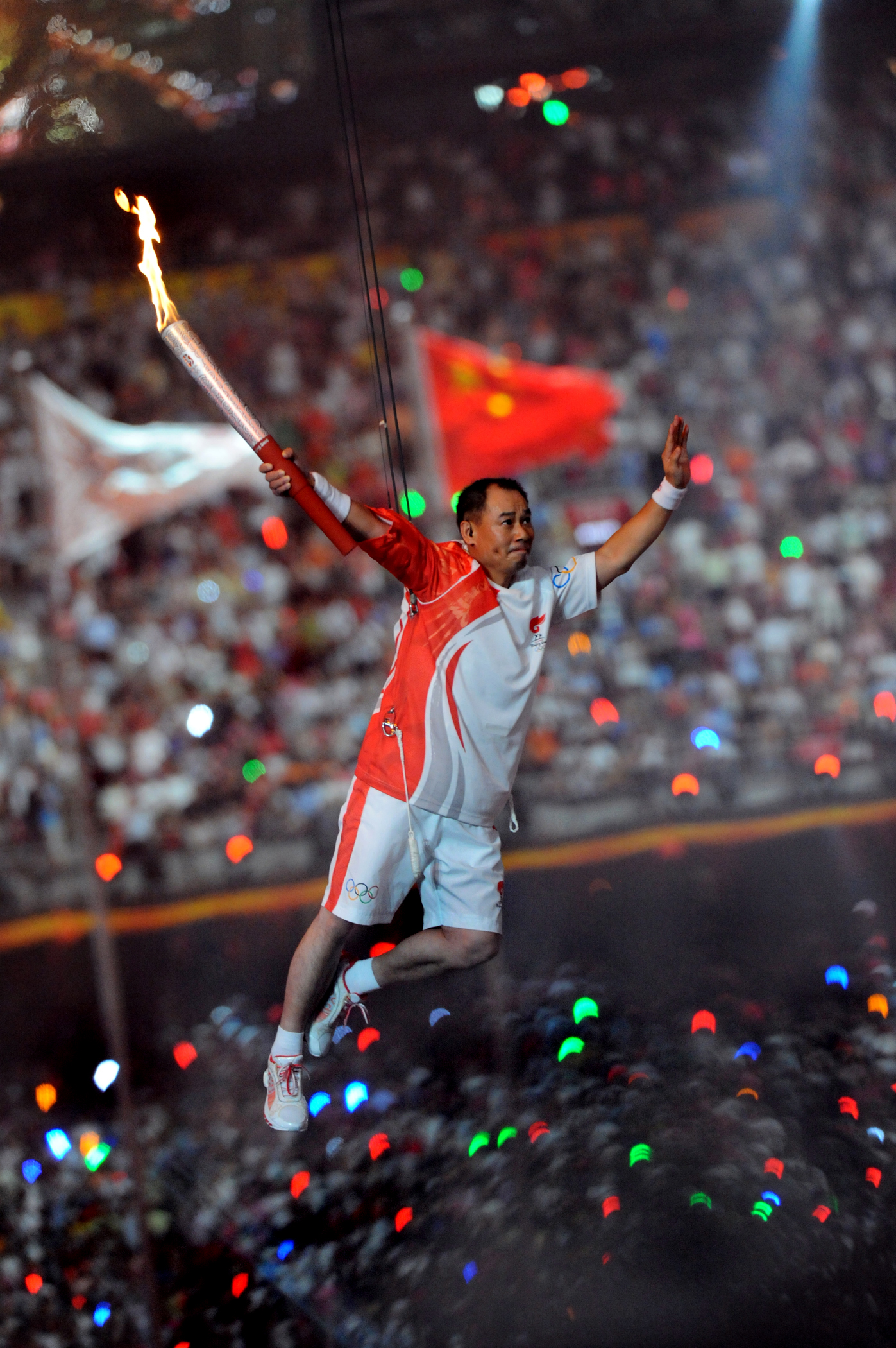 Chinese gymnast Li Ning, who won three gold, two silver and one bronze medal at the 1984 Summer Games in Los Angeles, carries the Olympic Torch while descending from the rafters after running around the upper rim of the Bird's Nest National Stadium during the Opening Ceremony of the Summer Olympic Games in Beijing on August 8, 2008.